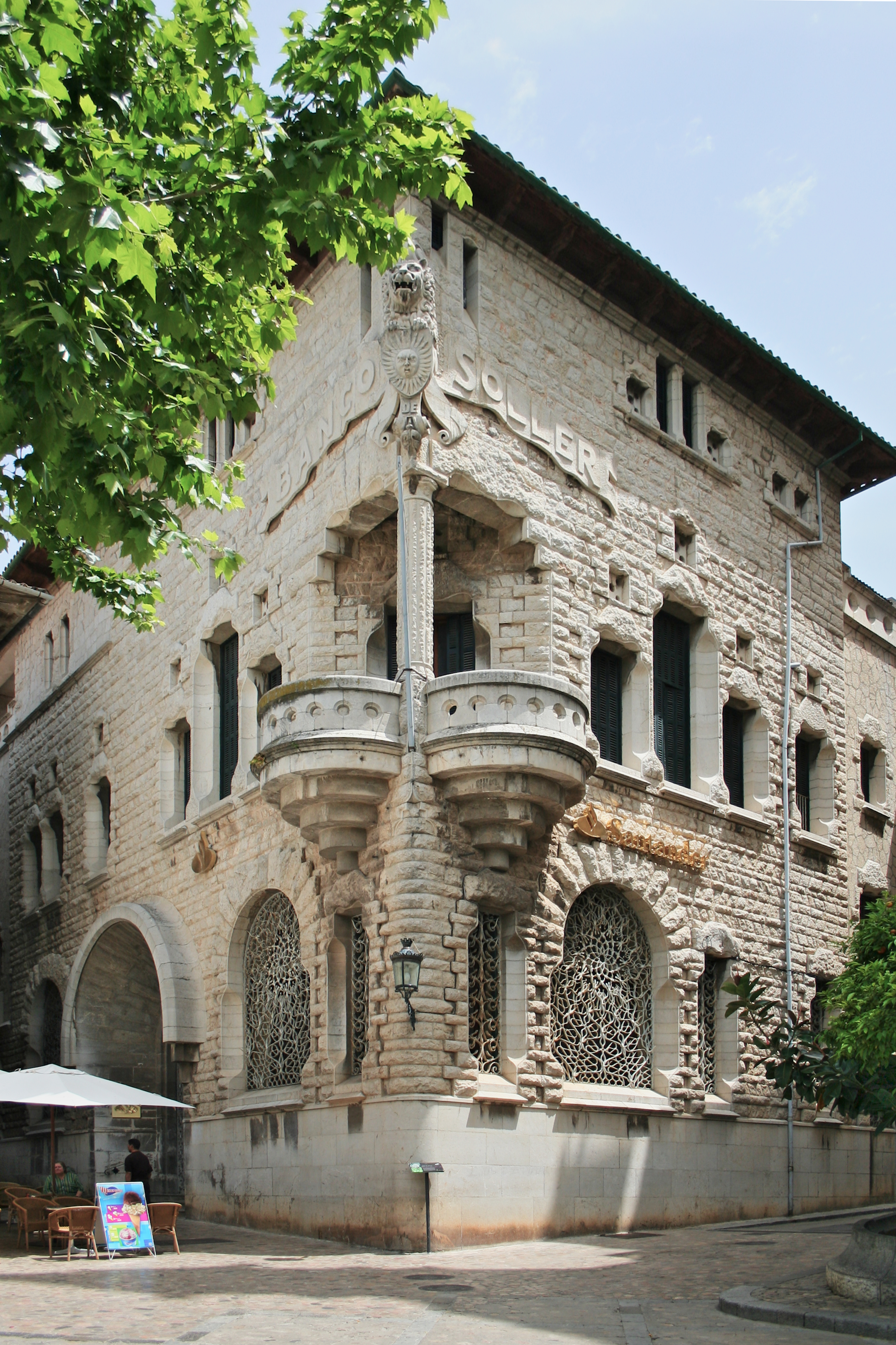 Building of Banco de Sóller - Mallorca